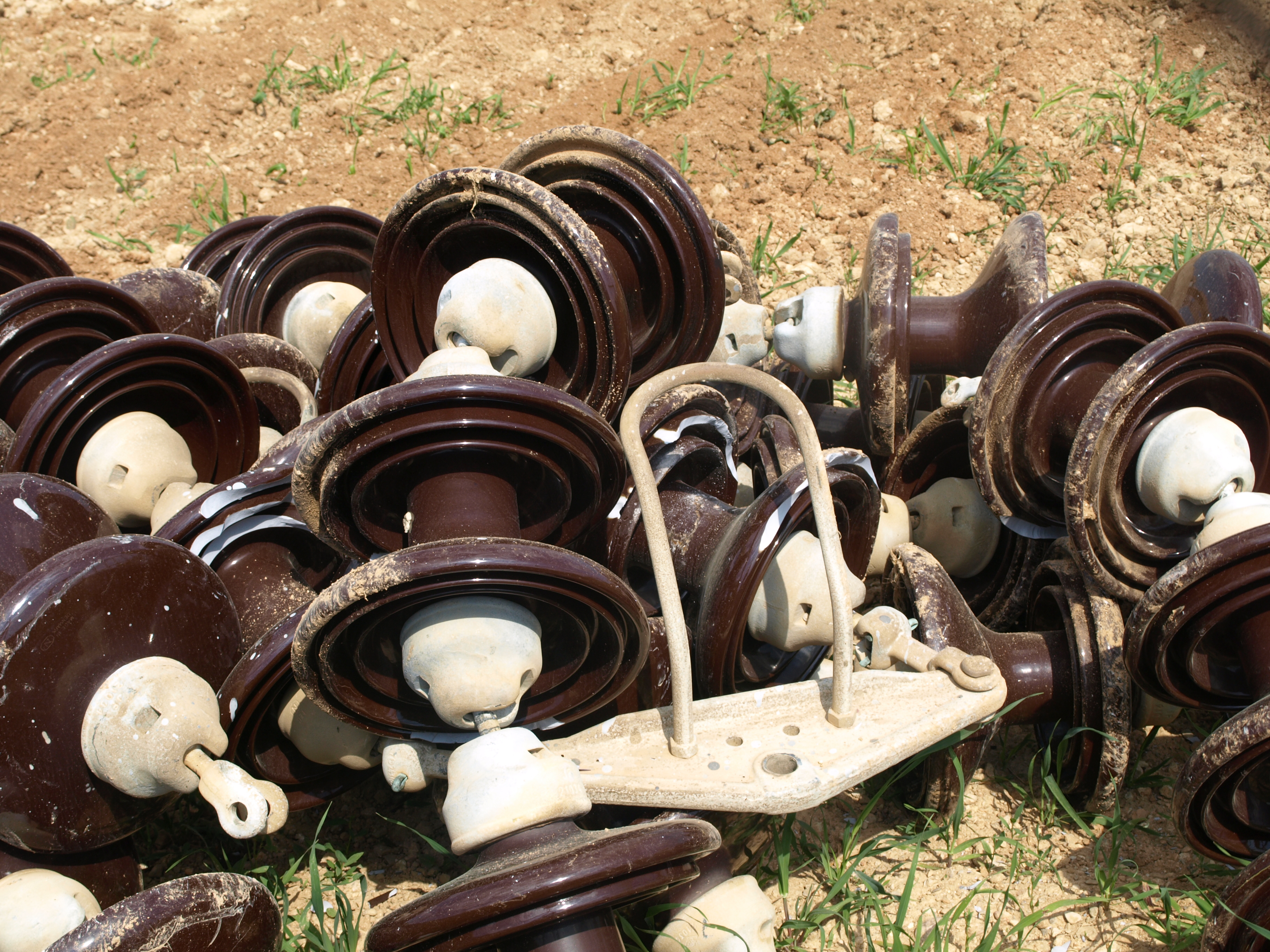 Electrical insulators in a repowering power line 66 kV operation, Son Ferriol Mallorca